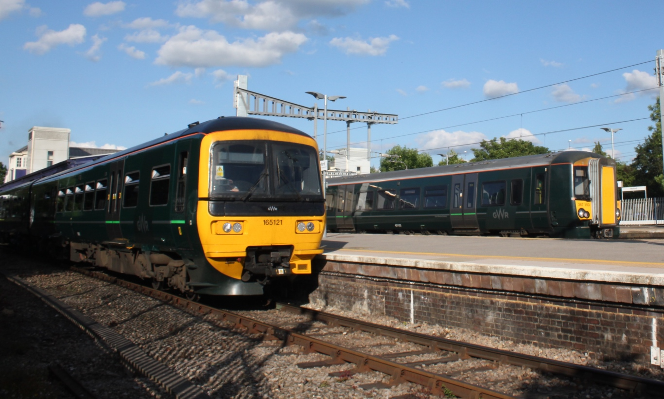 Diesel unit 165121 pulls out of Twyford for Henley-on-Thames as electric unit 387153 arrives from Reading.